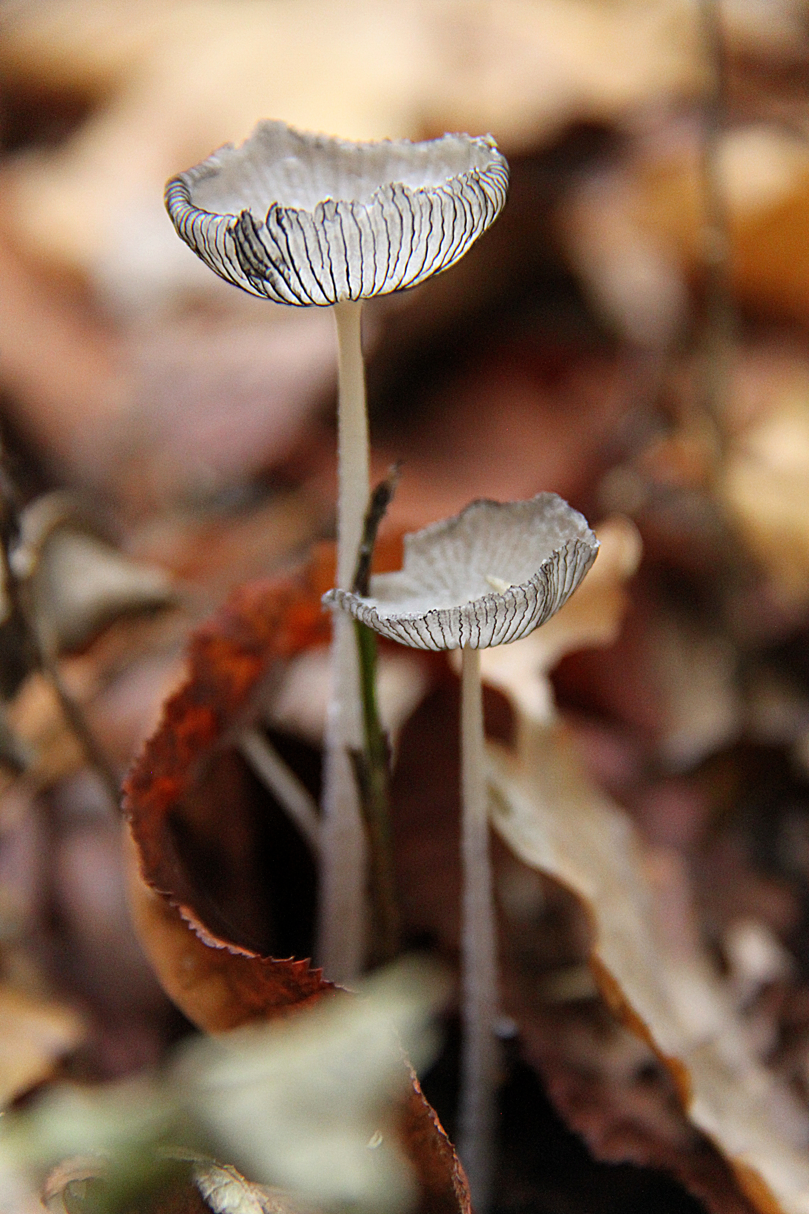 a specimen of Coprinopsis lagopus, photographed in Strypemonde, Isle of Voorne, Netherlands on 30 October 2016